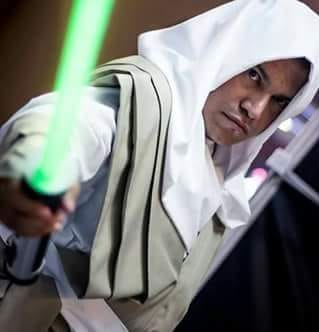 Comic Com Ec